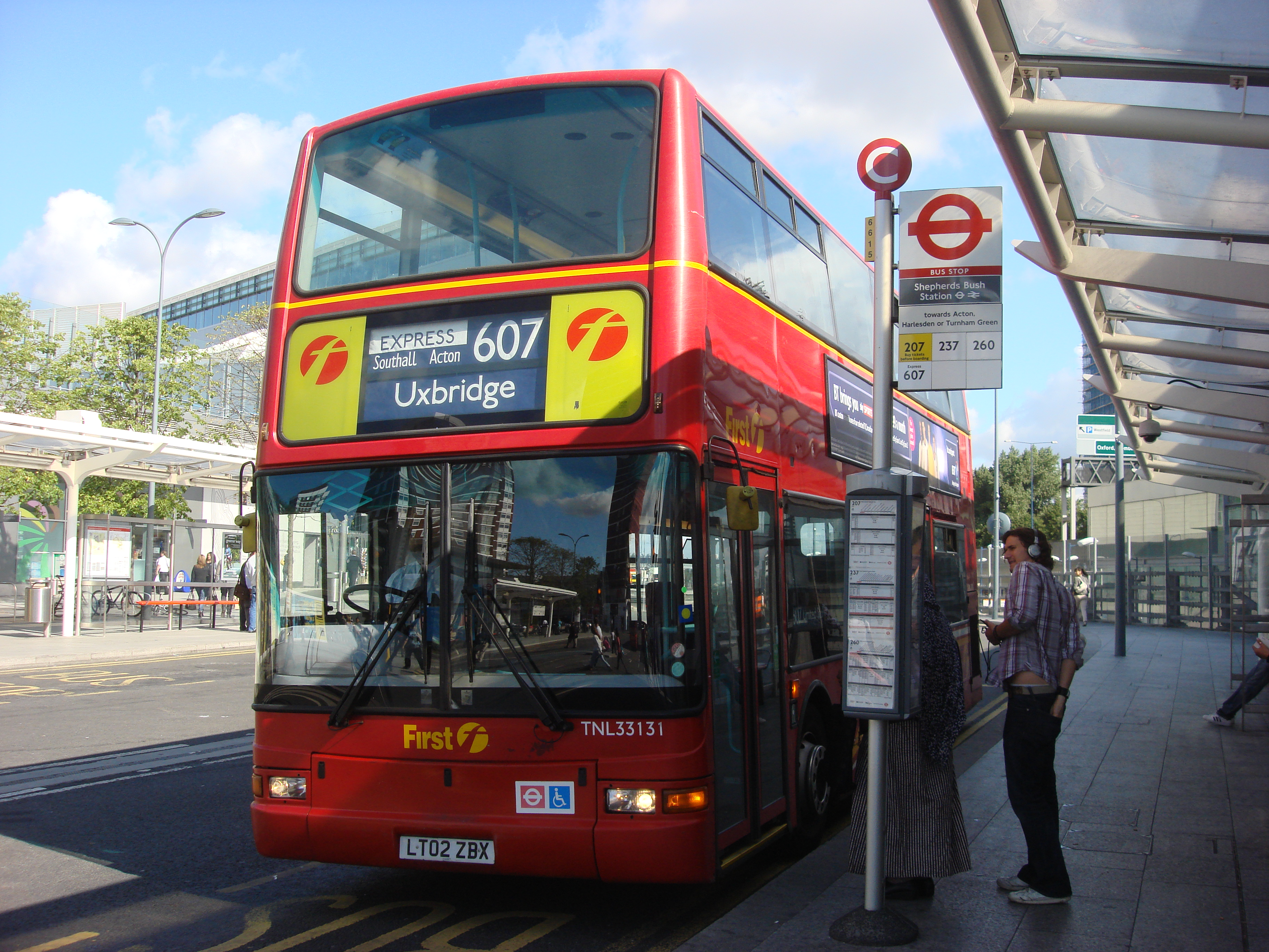 A London Bus .